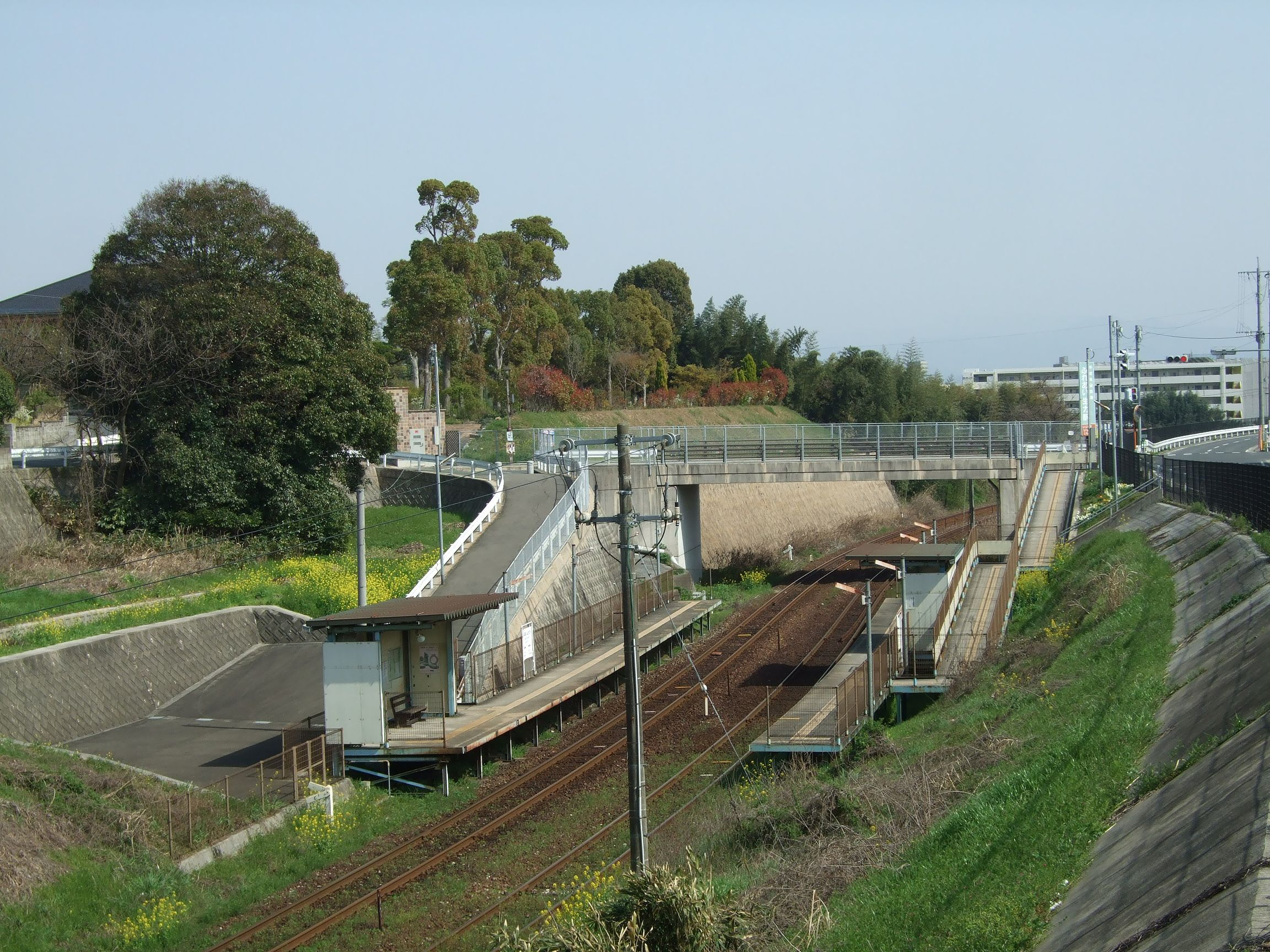 Fureai-Shoriki Station, Ita Line, Heisei Chikuho Railway, Fukuchi Town, Fukuoka, Japan.